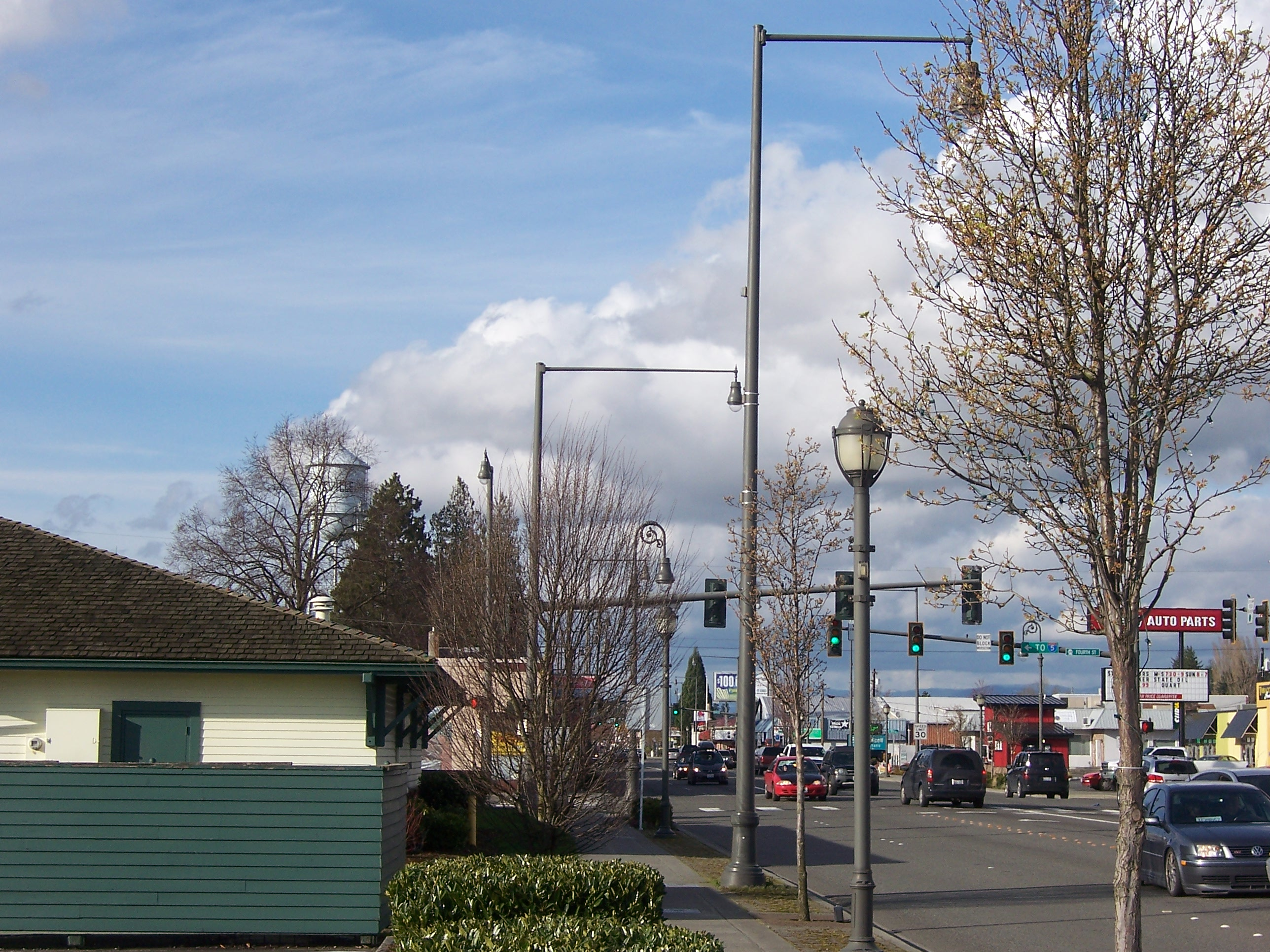 Downtown Marysville, Washington, looking north on State Ave just south of the 4th Street intersection. The water tower is to the left behind the trees.